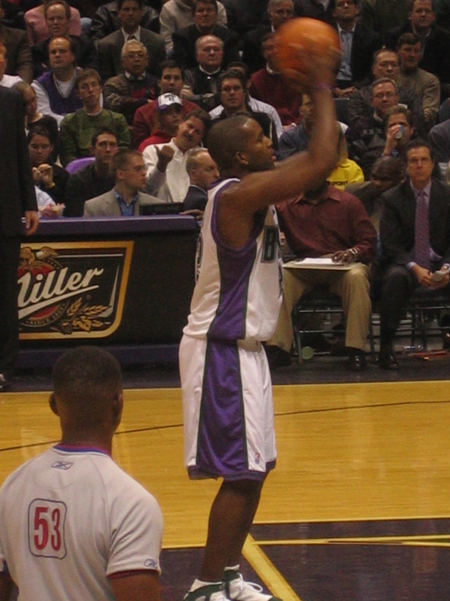 Michael Redd taking a free throw.